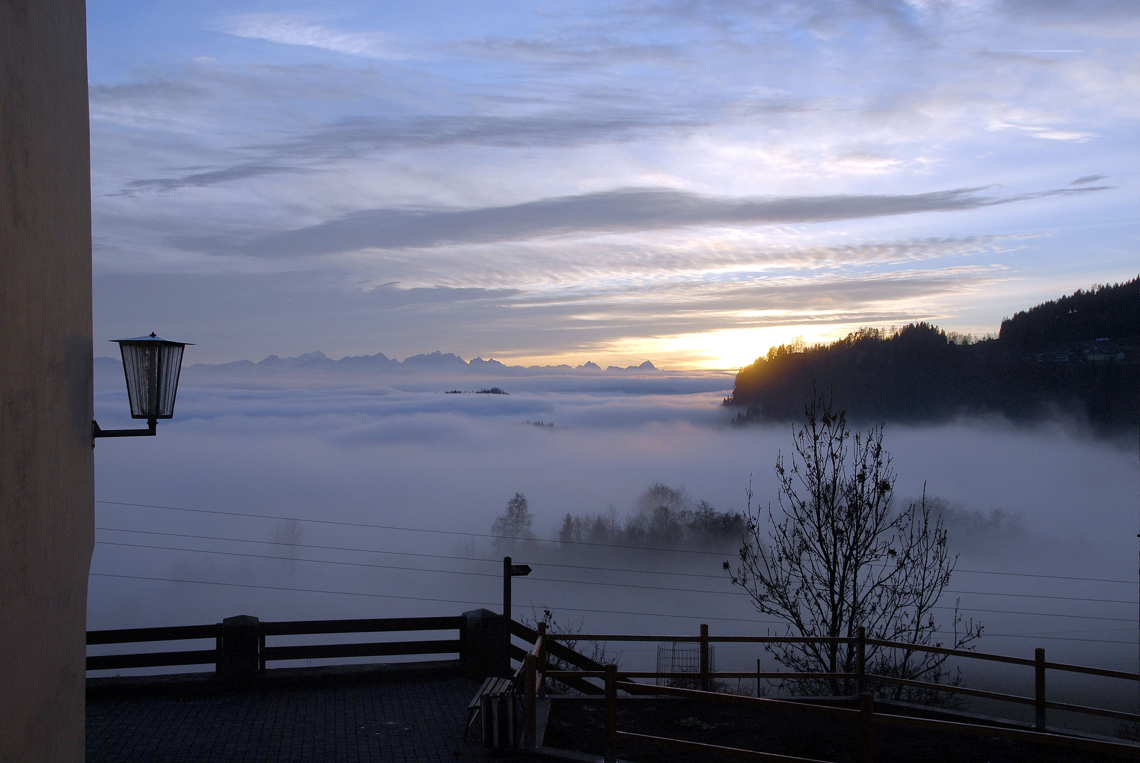 View of the Karawanks from the village Soerg in southwestern direction across the "sea of fog", market town Liebenfels, district Sankt Veit an der Glan, Carinthia, Austria, EU